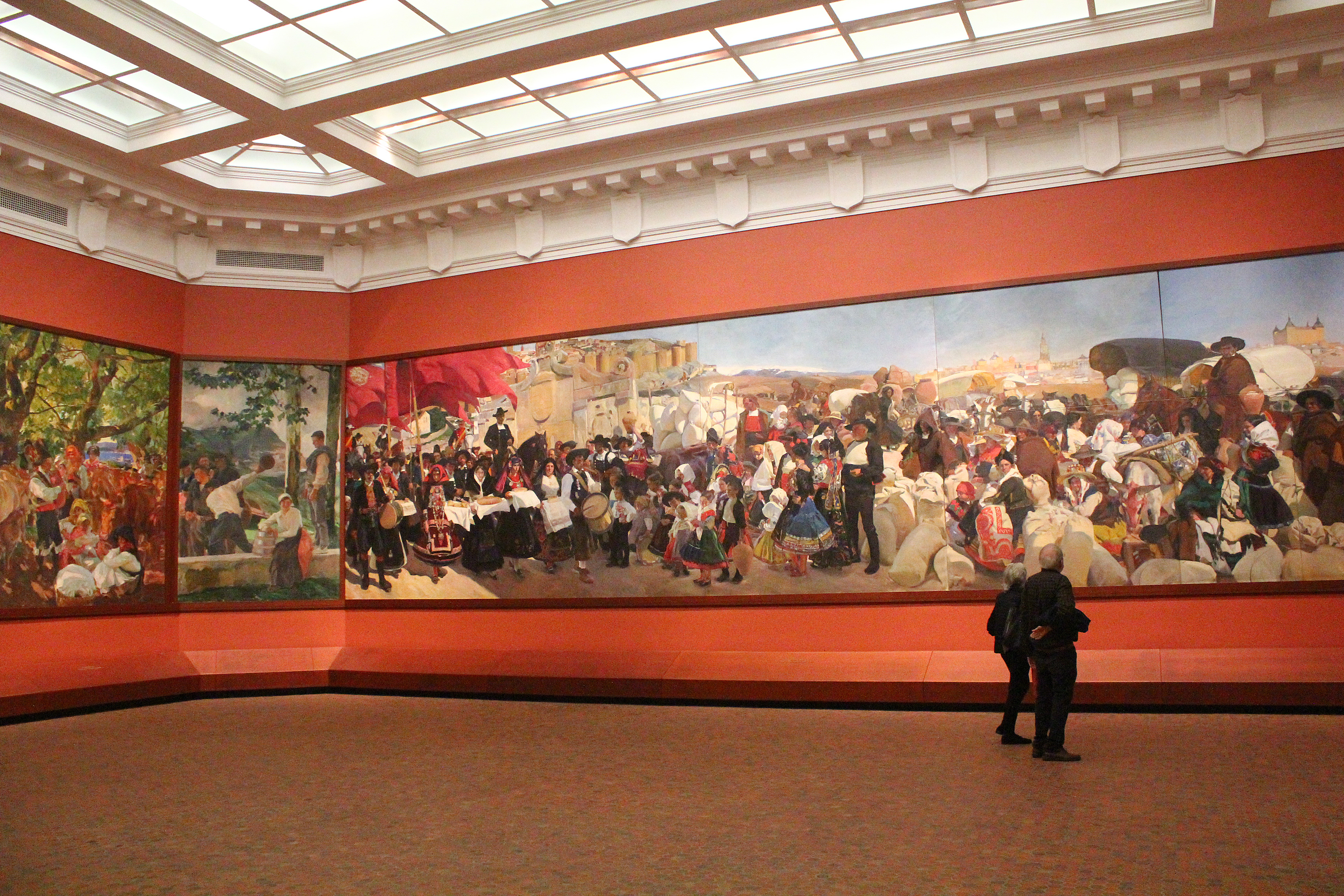 Site: Hispanic Society of America